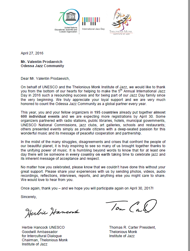 Thank you letter Valentin Prodaevich from UNESCO